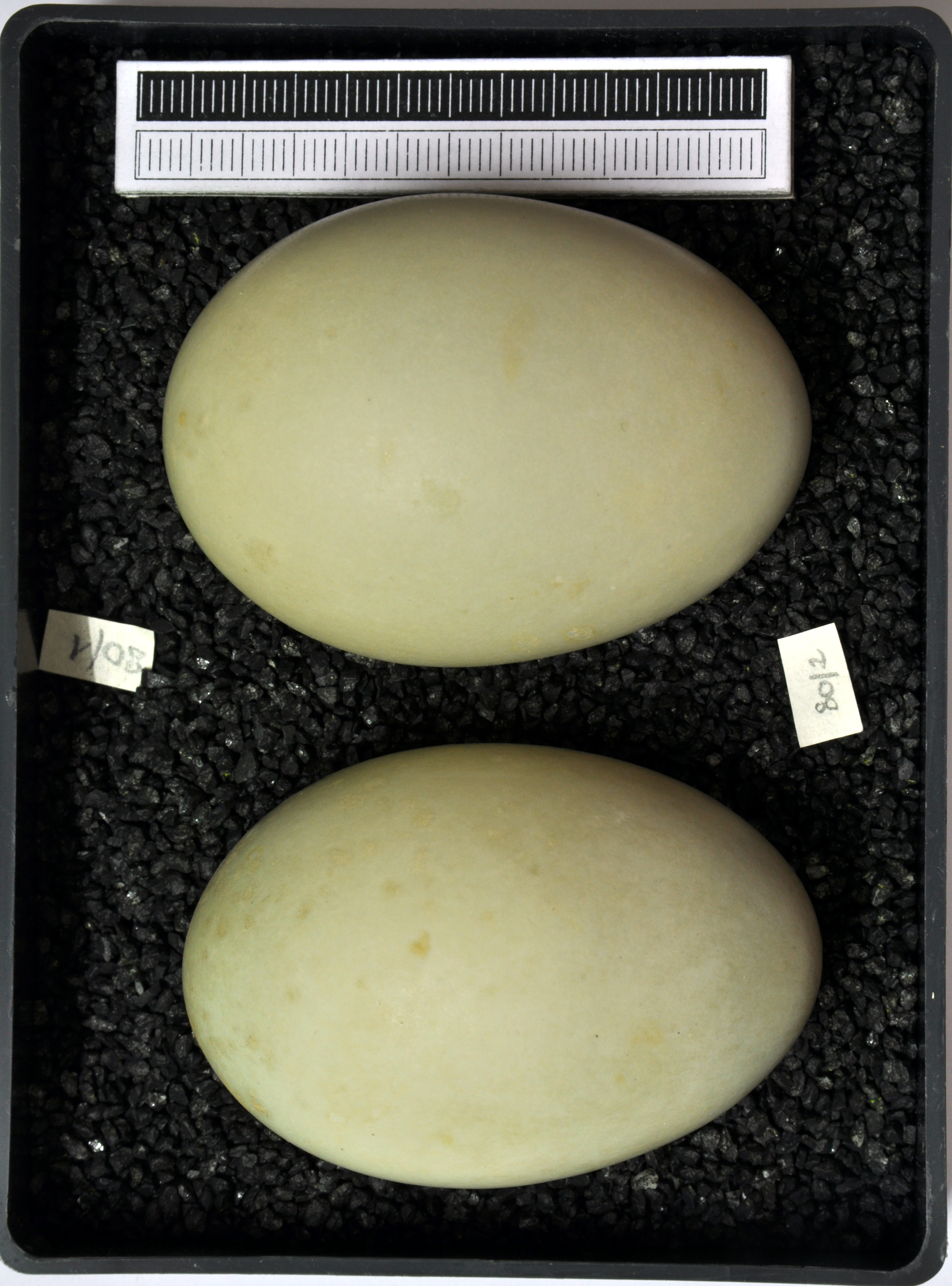 Common goldeneye Bucephala clangula , egg, Coll. Museum Wiesbaden, Origin: Värmlands Län,Sweden, 1972, leg. W. Abelmann